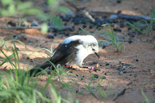 The terrestiral foraging behaviour of a Southern Pied Babbler (Turdoides bicolor).